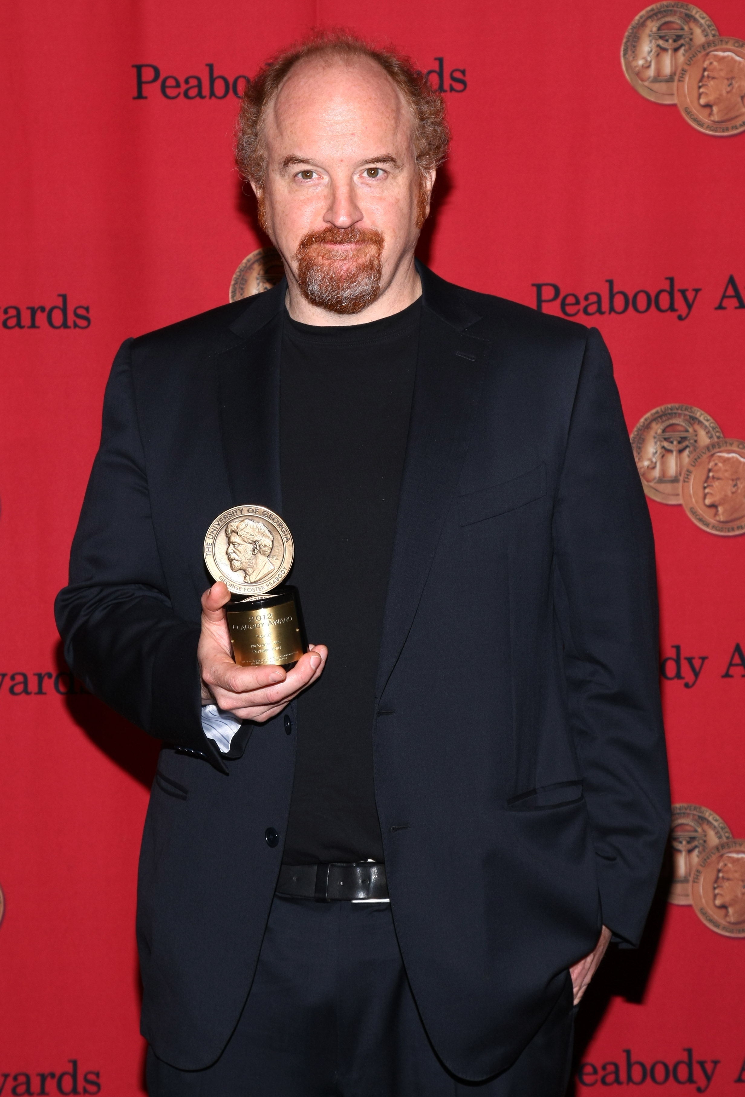 PHOTO CREDIT: ANDERS KRUSBERG / PEABODY AWARDS Louis C.K 72nd Annual Peabody Awards Luncheon Waldorf-Astoria Hotel May 20, 2013